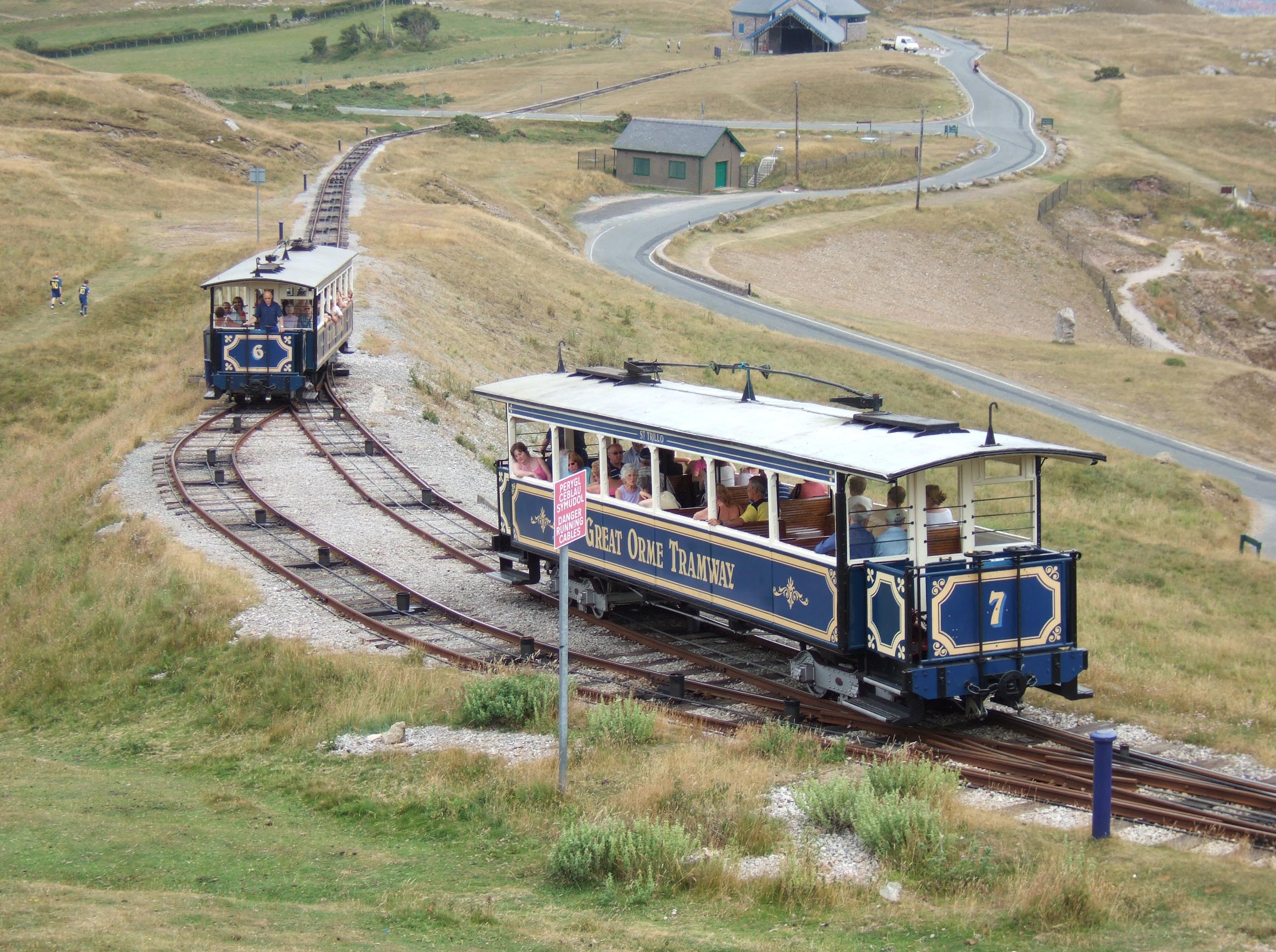 Great Orme Tramway Trams No.6 & No.7 passing on the Upper Section. 17th July 2005 Photographer - A.M.Hurrell Camera - Fuji FinePix F10 Modified - Trimmed and file size reduced using Adobe Photoshop 5.0LE